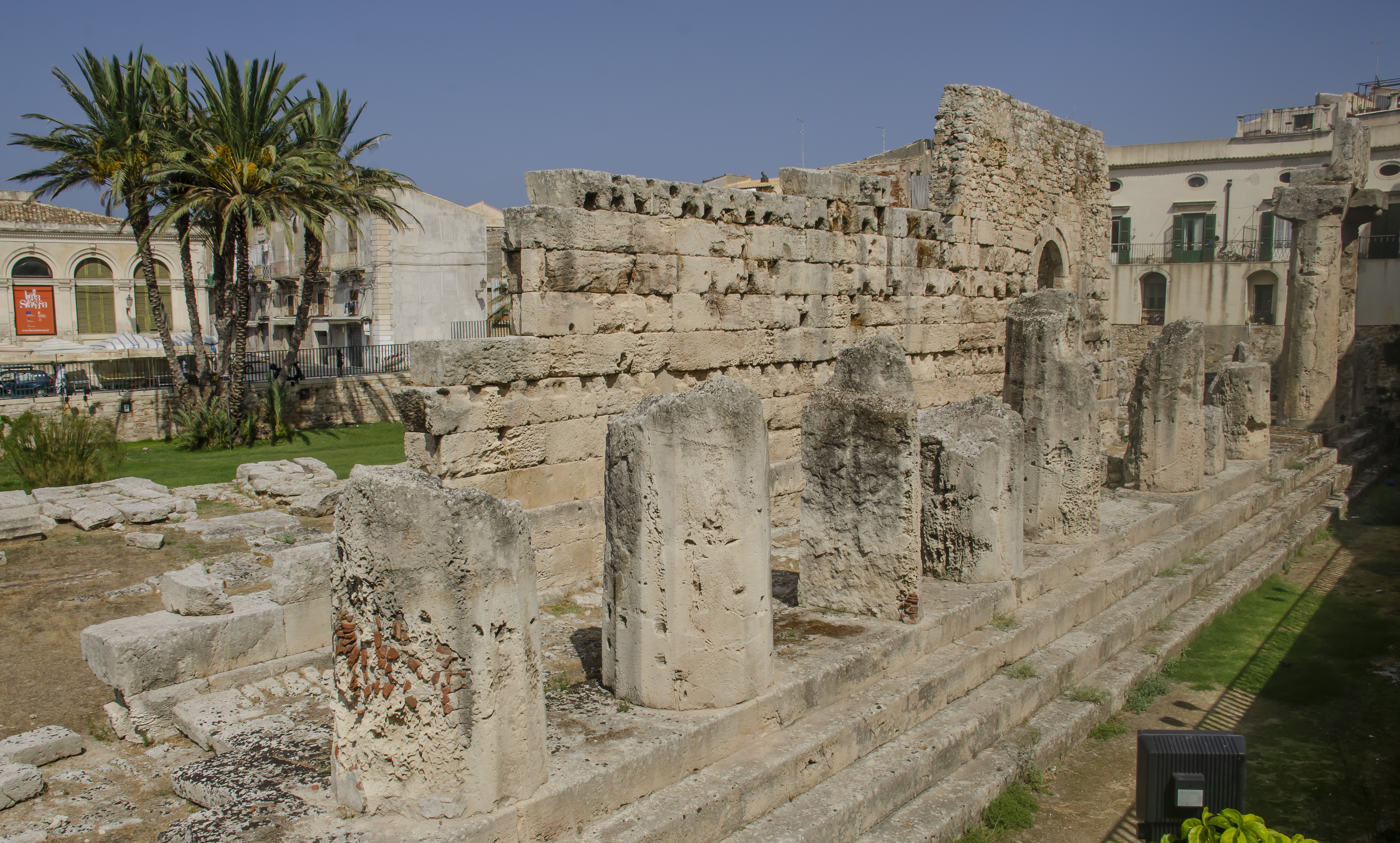 Apollon temple, Siracusa, Sicily.